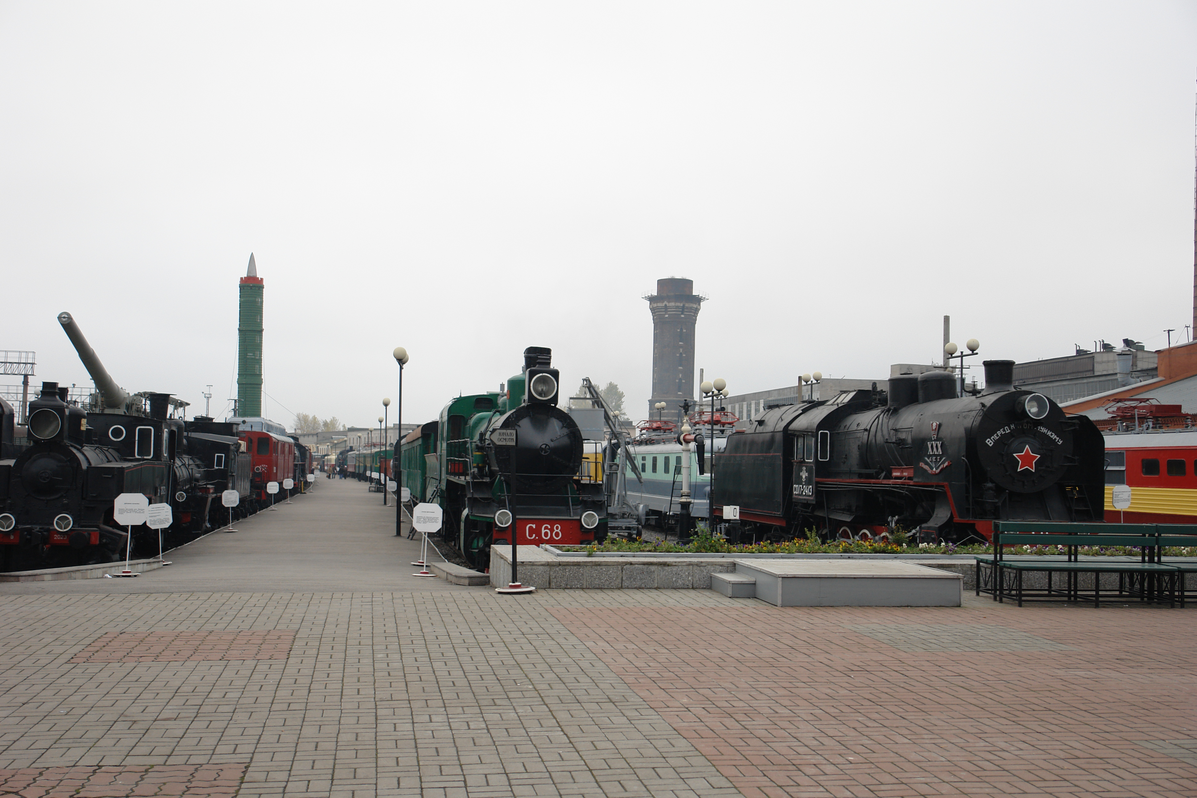 Overall view (see russian description for museum name)